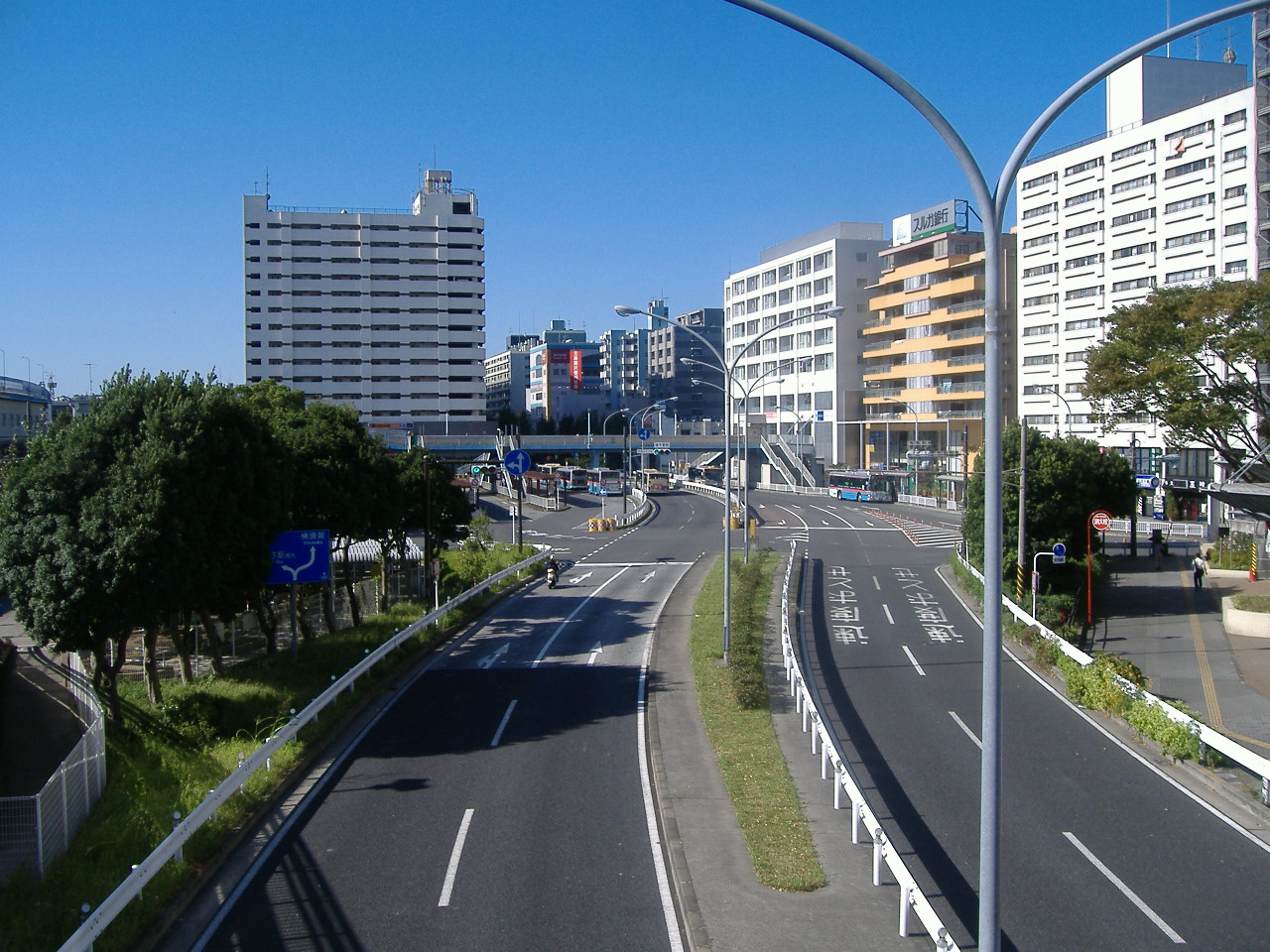 Isogo Town square (Yokohama, Japan)